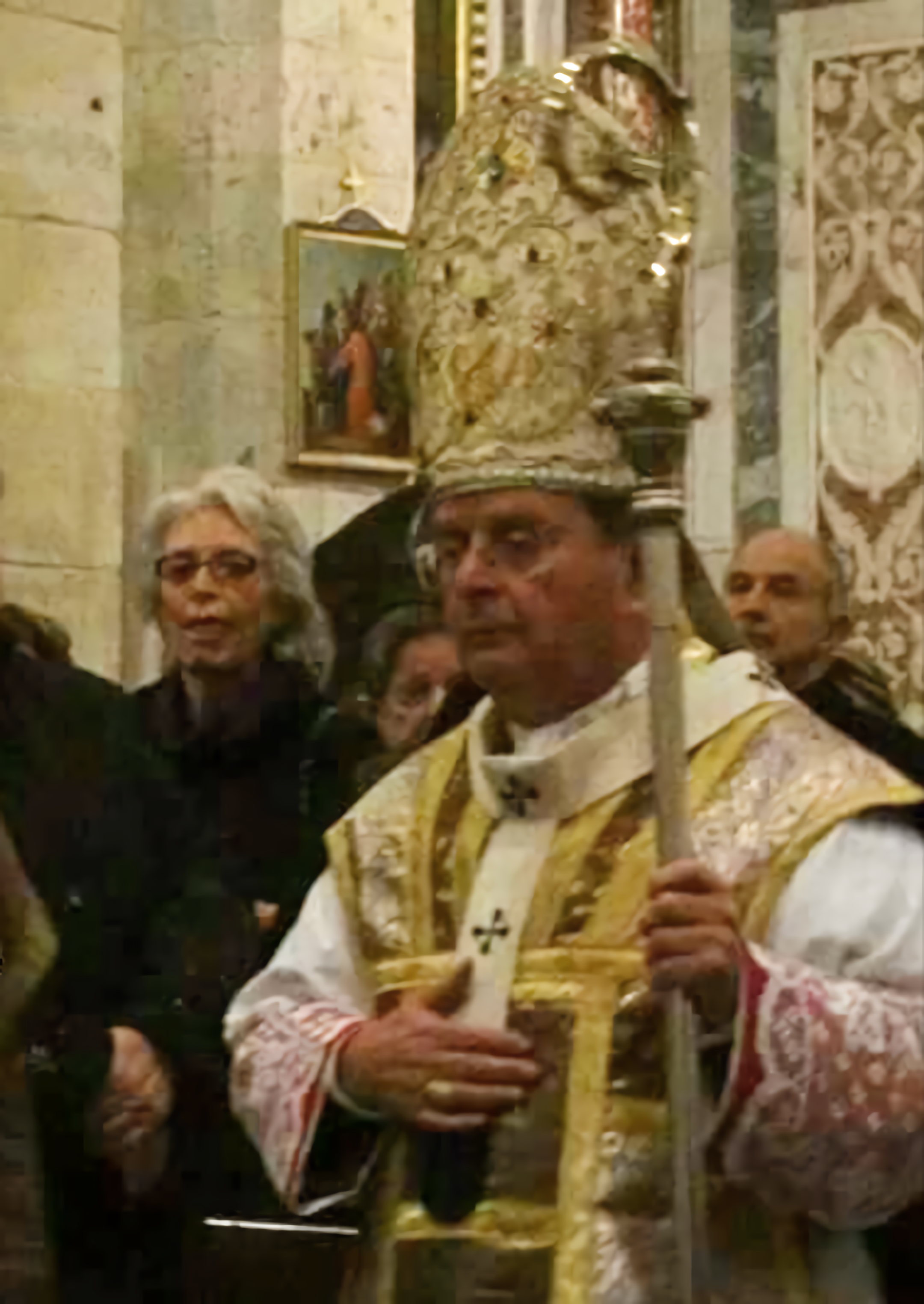 Arcivescovo Arrigo Miglio